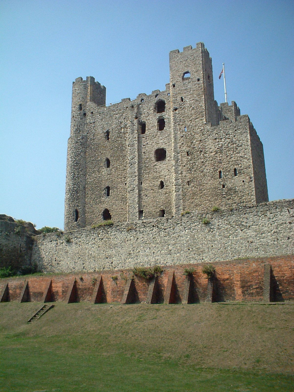 Original description: "Rochester Castle. Taken by James Armitage, Wednesday 17th August 2005."